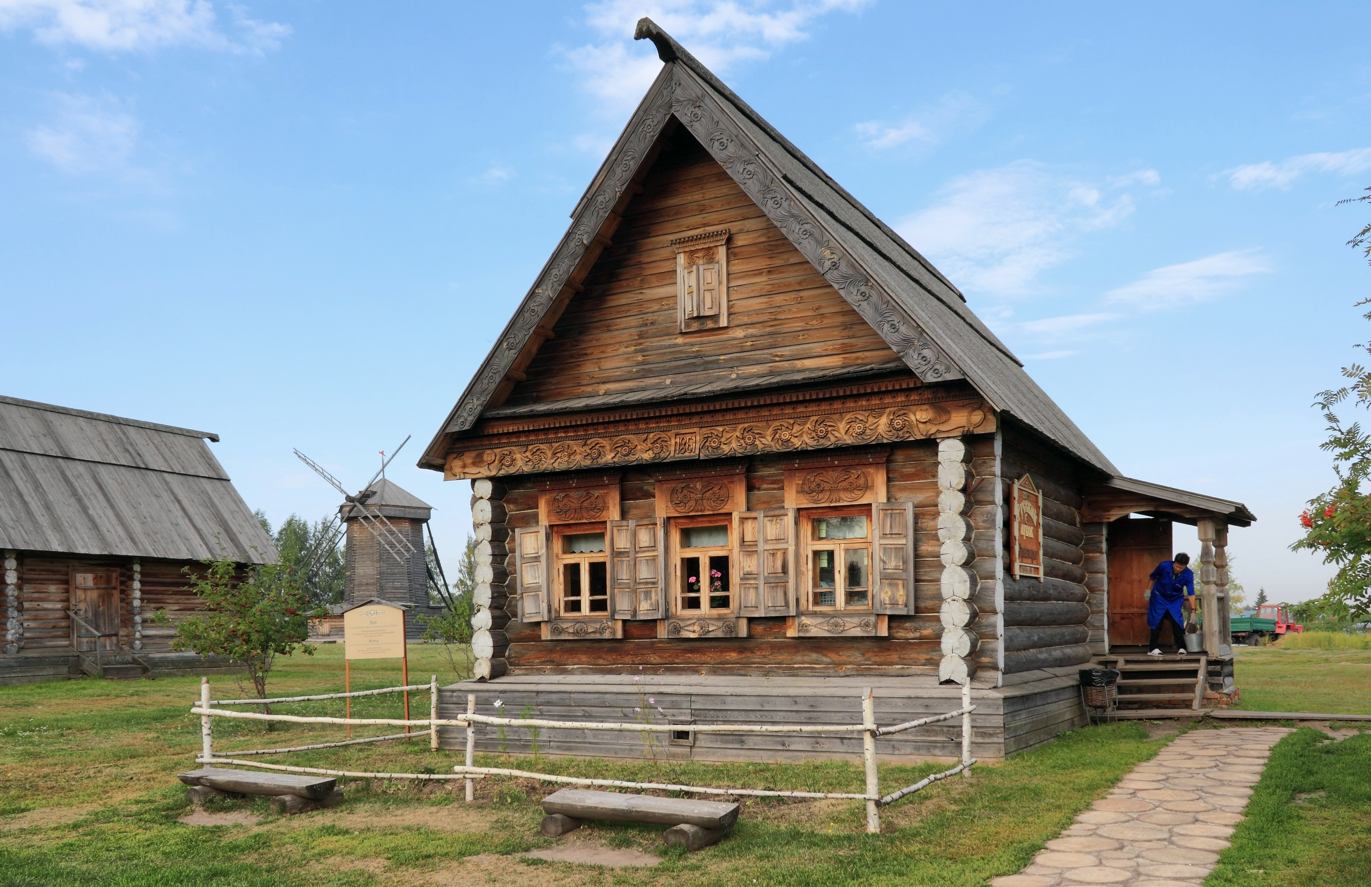 Suzdal. Museum of Wooden Architecture. House of the XIX century